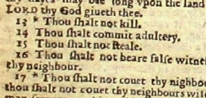 A section of a page from the Wicked Bible of 1631. The image is not copyrighted due to the age of the work. The section highlights a contemporary typographical error insofar as it omits the word not from the commandment “Thou shalt not commit adultery”.